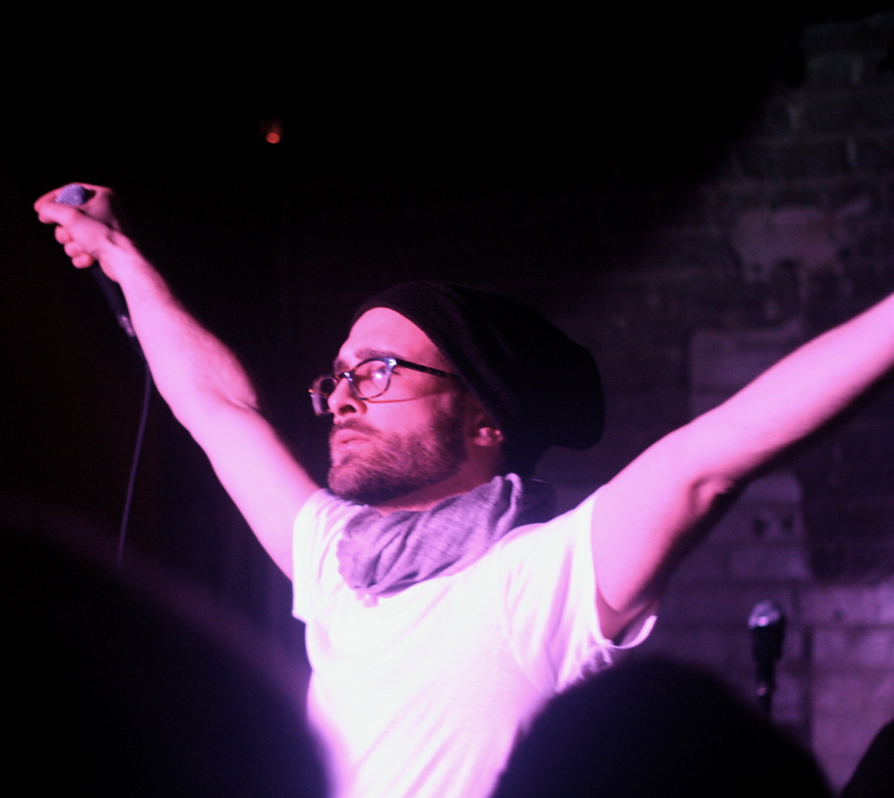 Jérôme Rocipon of Numéro at the Social.